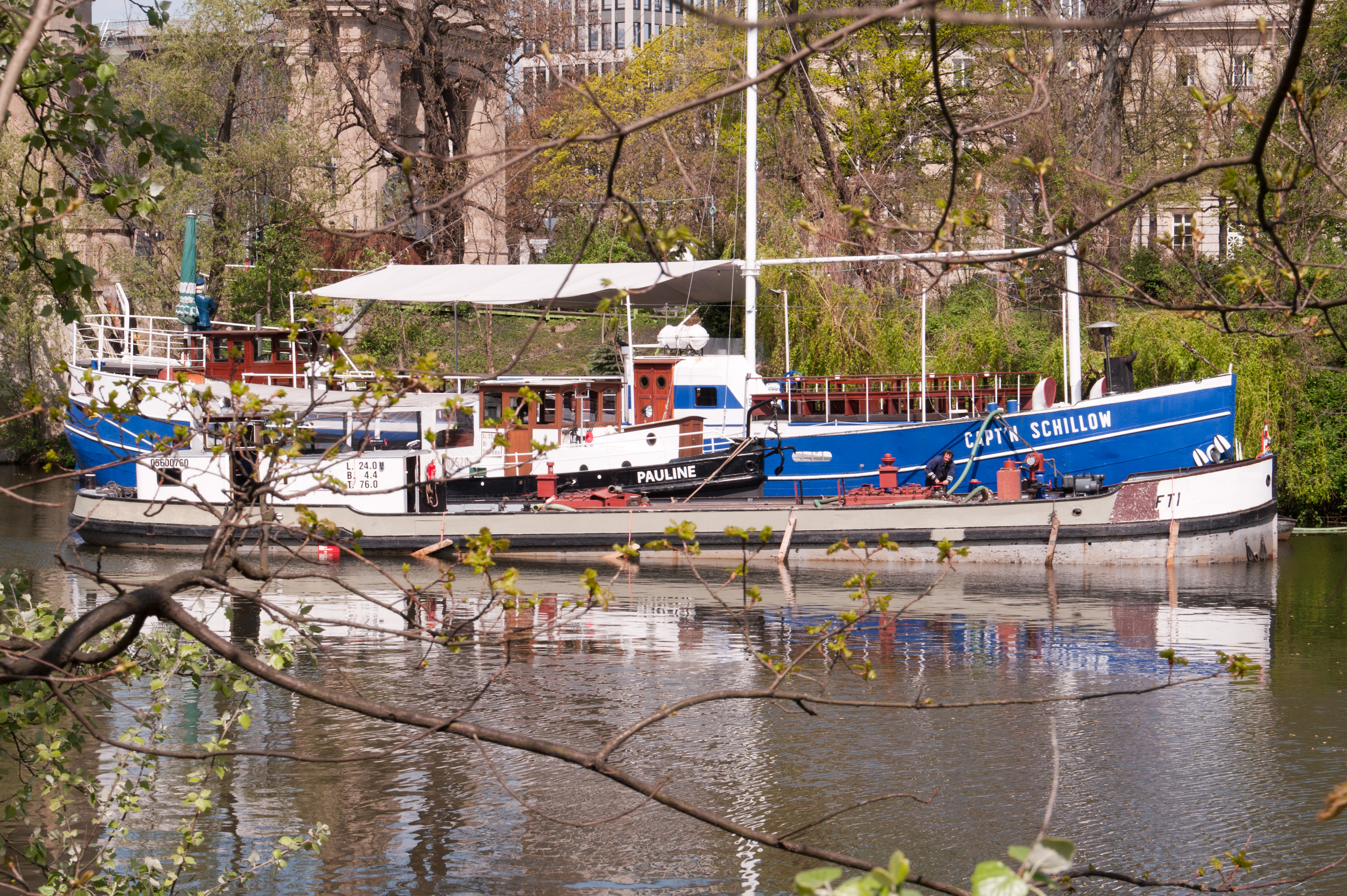 Three ships in the Landwehrkanal, Berlin